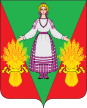 Coat of arms of Marinski, Tbiliskaya raion, Krasnodar Krai, Russia.